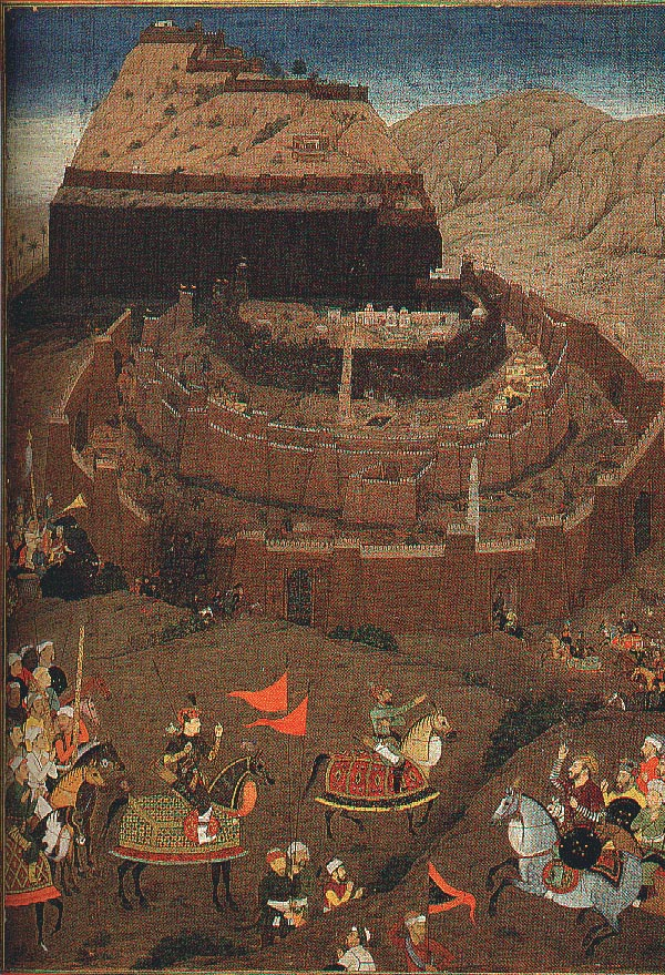 Illustrations from the 1636 Padshahnama of Shah Jahan showing Moghul Soldier & Civilian Costume. Illustrations to the text of Abdul Hamid Lahori